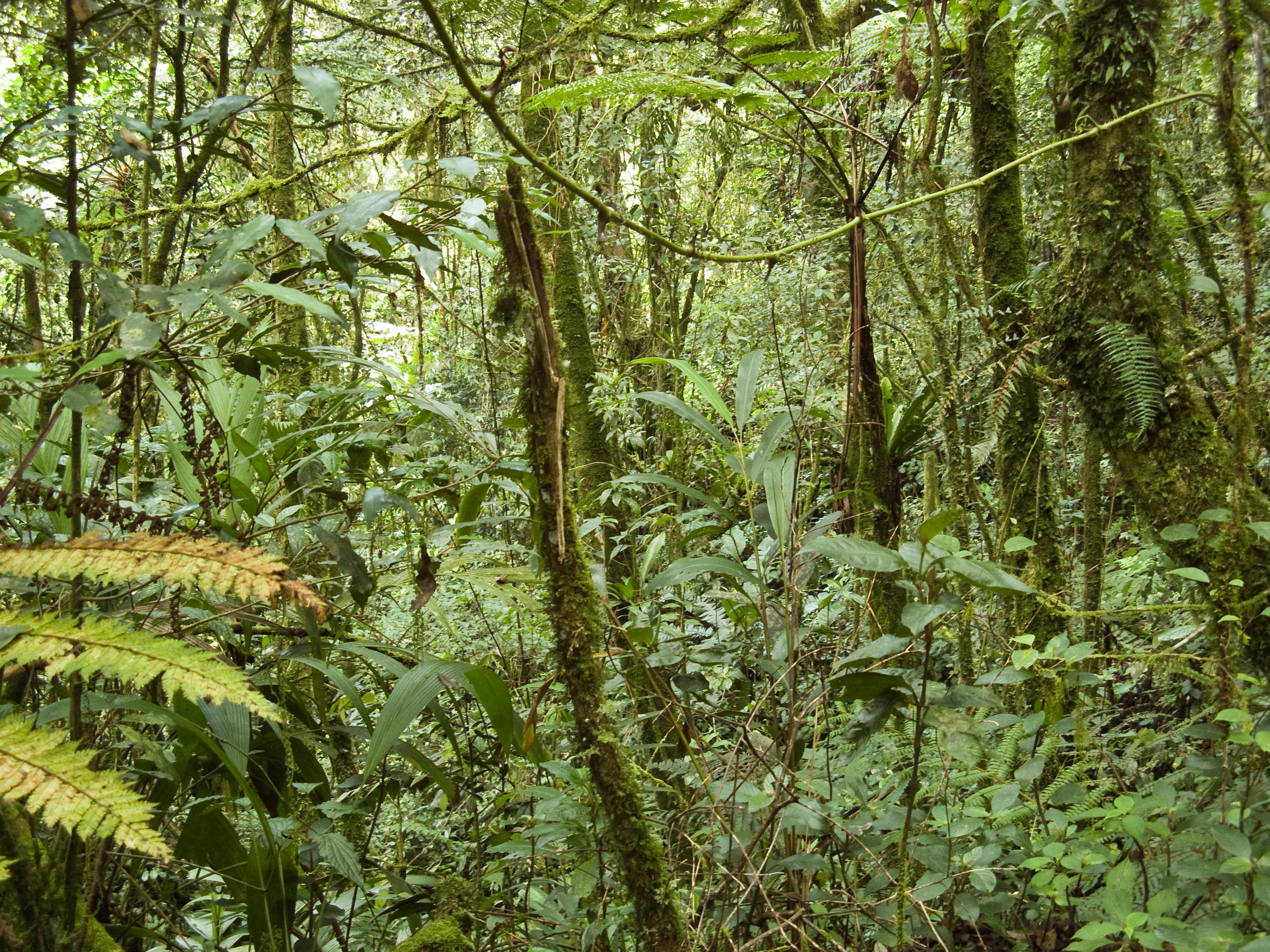 Montane tropical forest on Gunung Batu Brinchang (Mount Batu Brinchang), Cameron Highlands, Malaysia. Photo taken 12 May 2010 not far below summit which is at 2,032 m (6,667 ft).